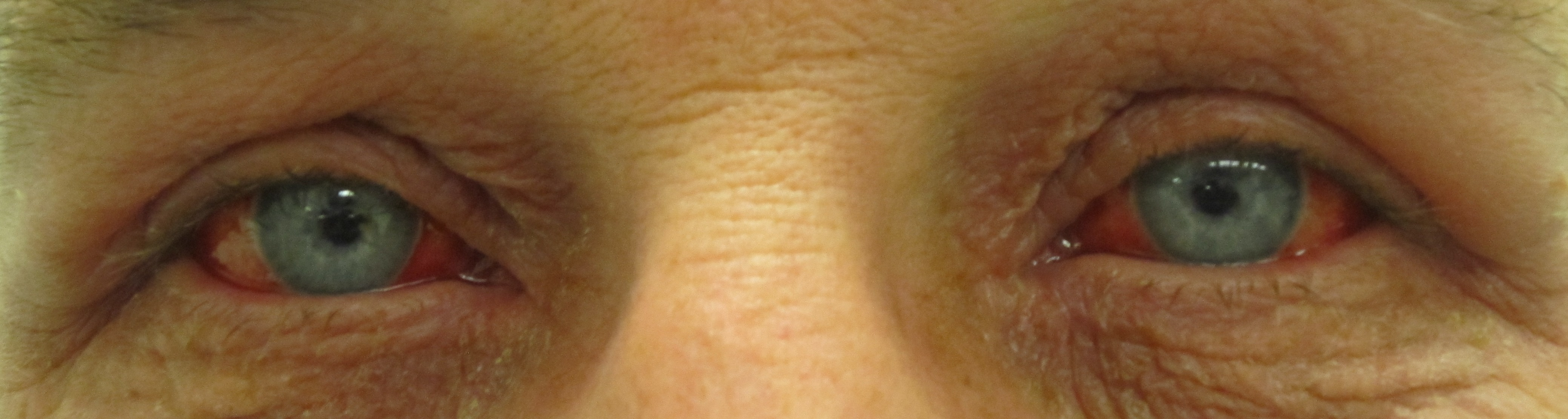 Hemorrhagic conjunctivitis